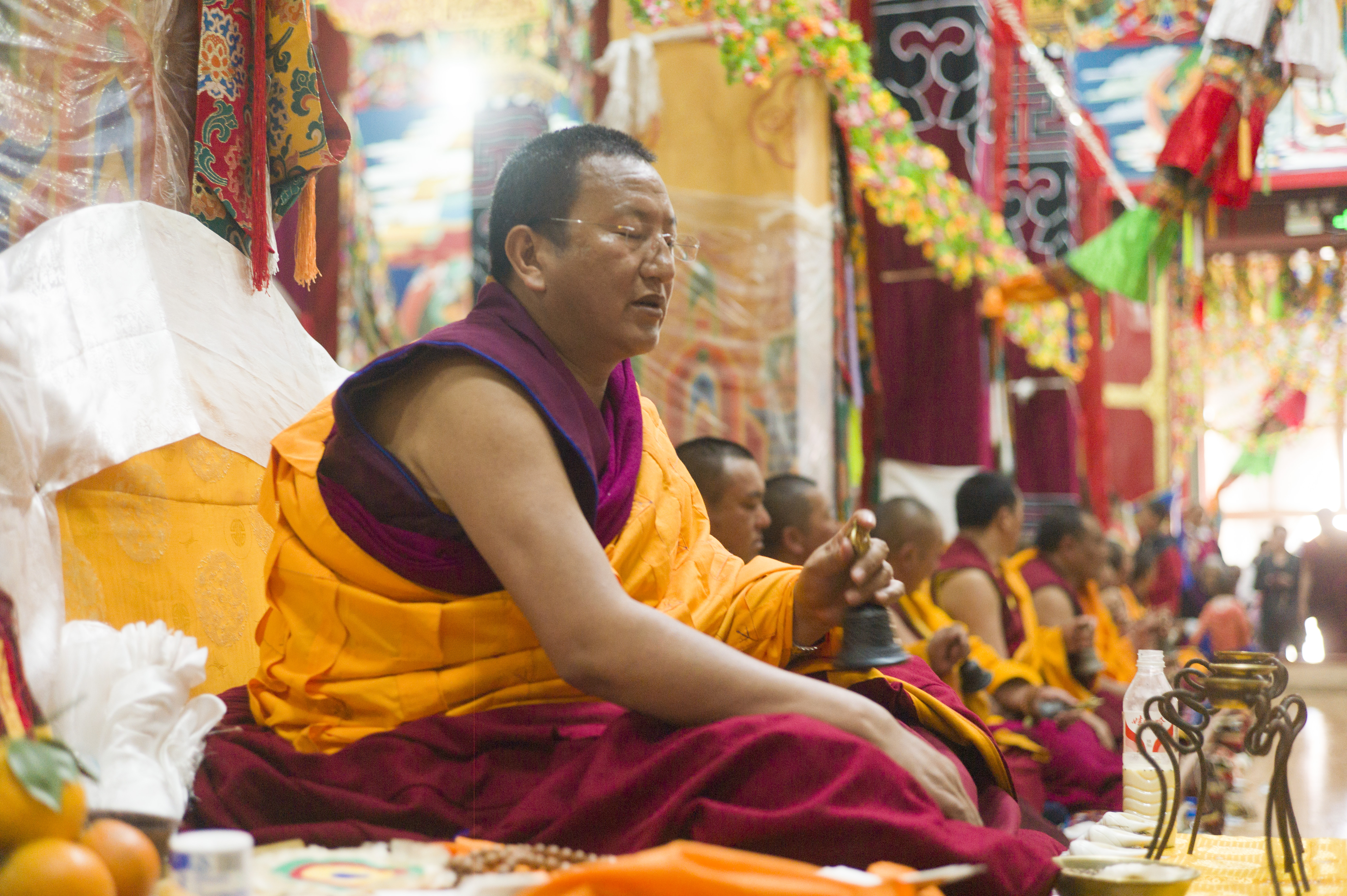 Tenzin Master hold dharma assembly